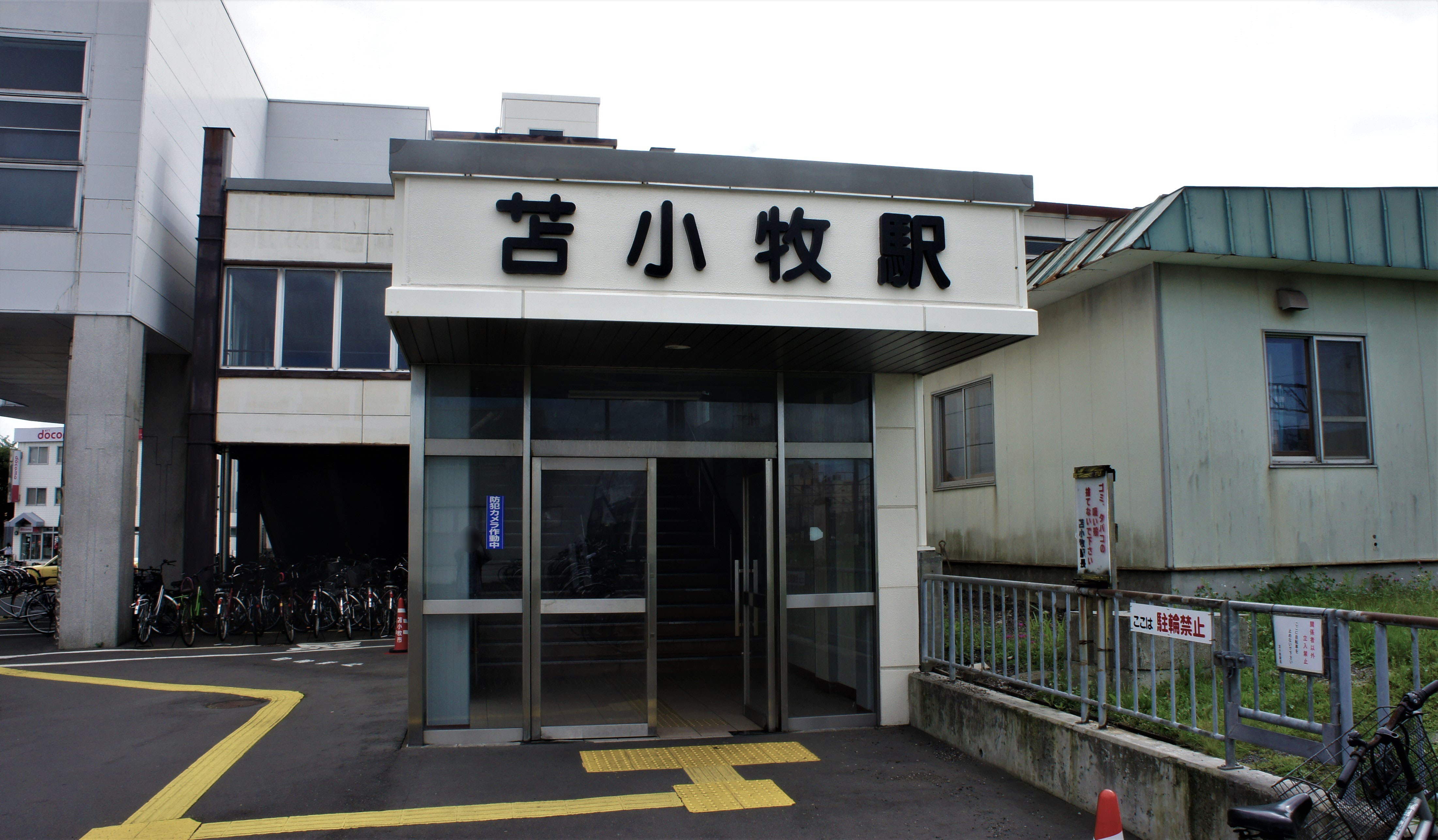 North Exit of JR Muroran-Main-Line/Hidaka-Main-Line Tomakomai Station